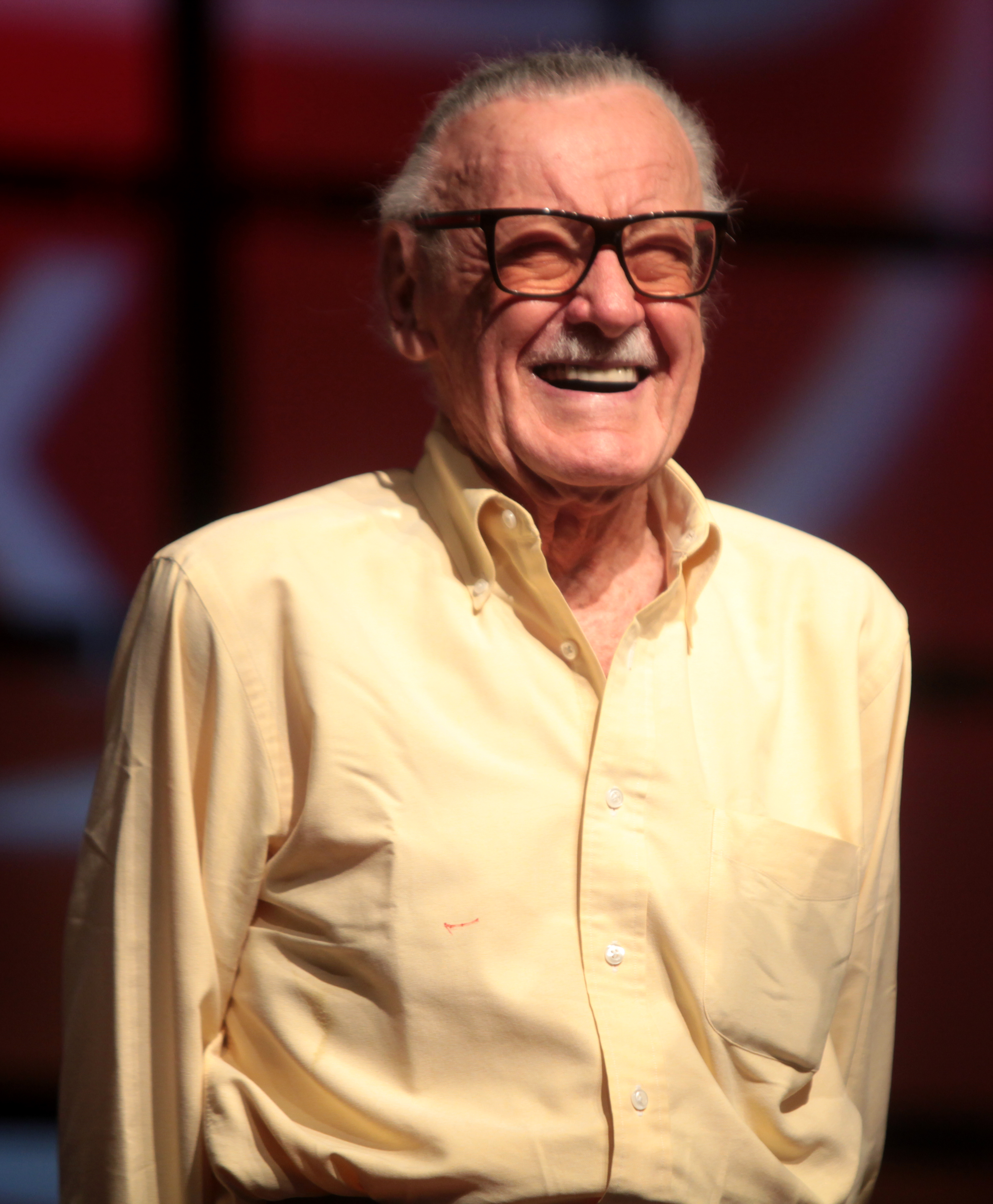 Stan Lee speaking at the 2014 Phoenix Comicon on June 8, 2014.